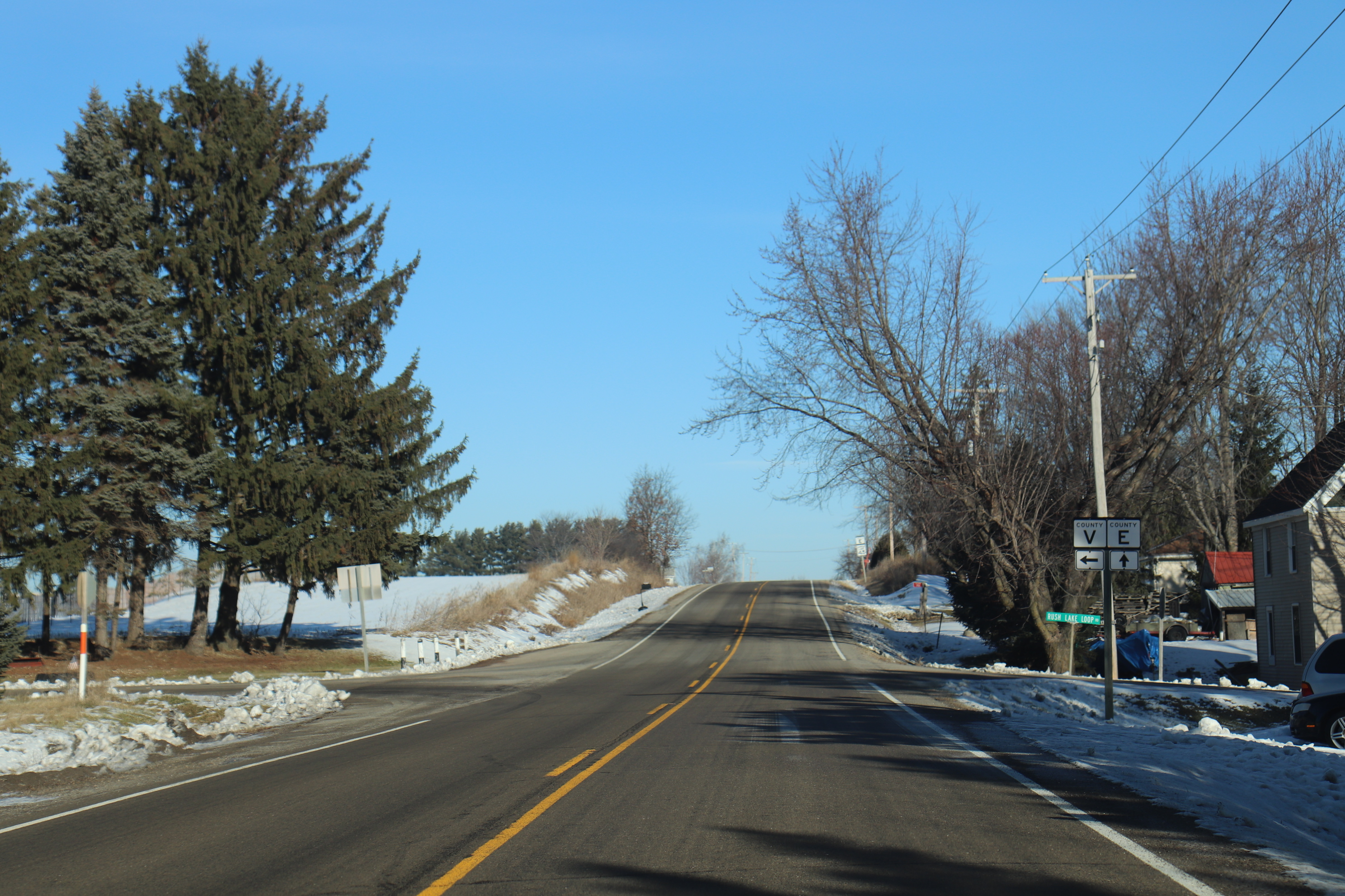 The intersection of County Roads V & E in Rush Lake, Wisconsin.